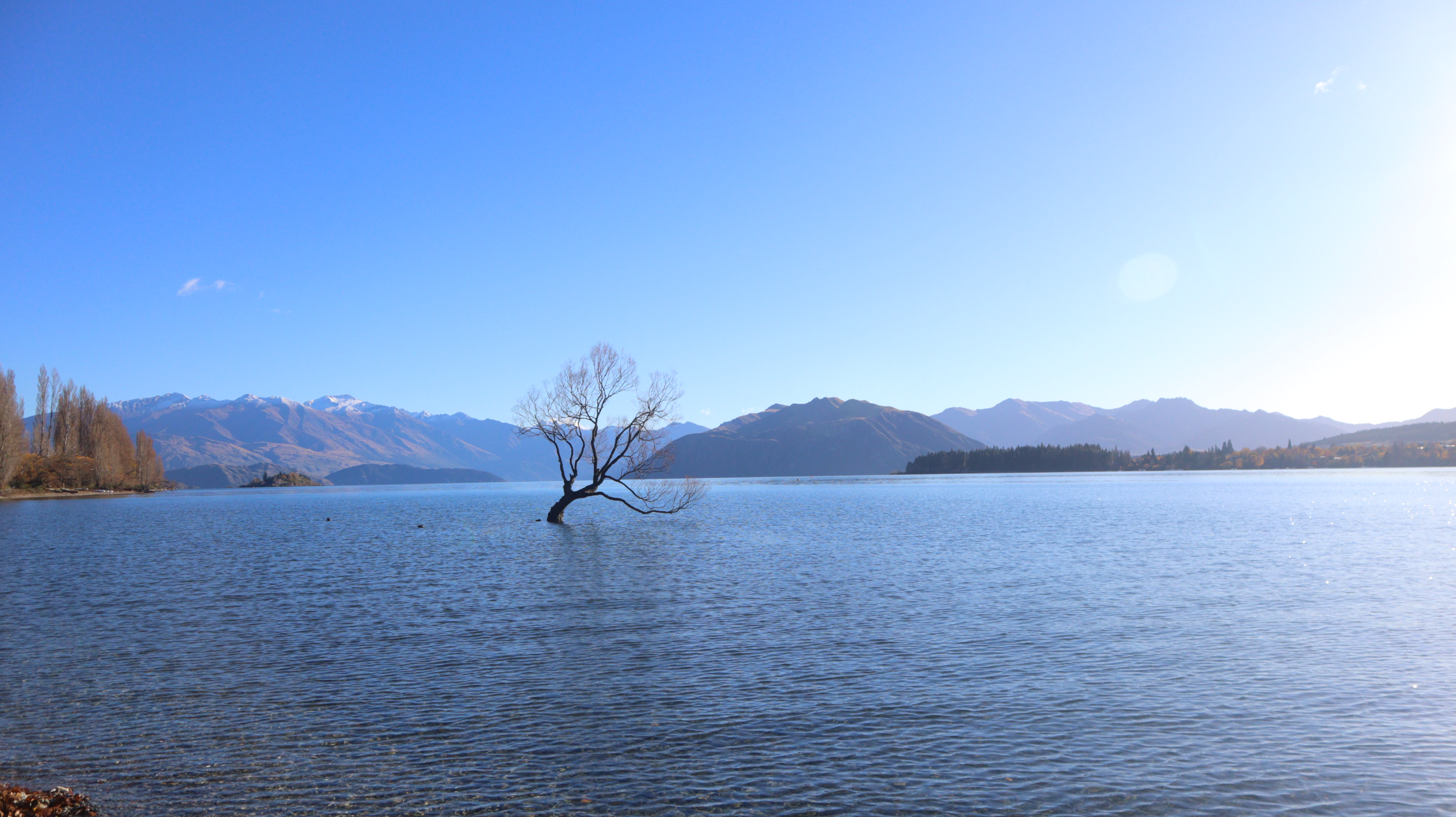 Wanaka Tree taken prior to winter. Credits: @2cruisin